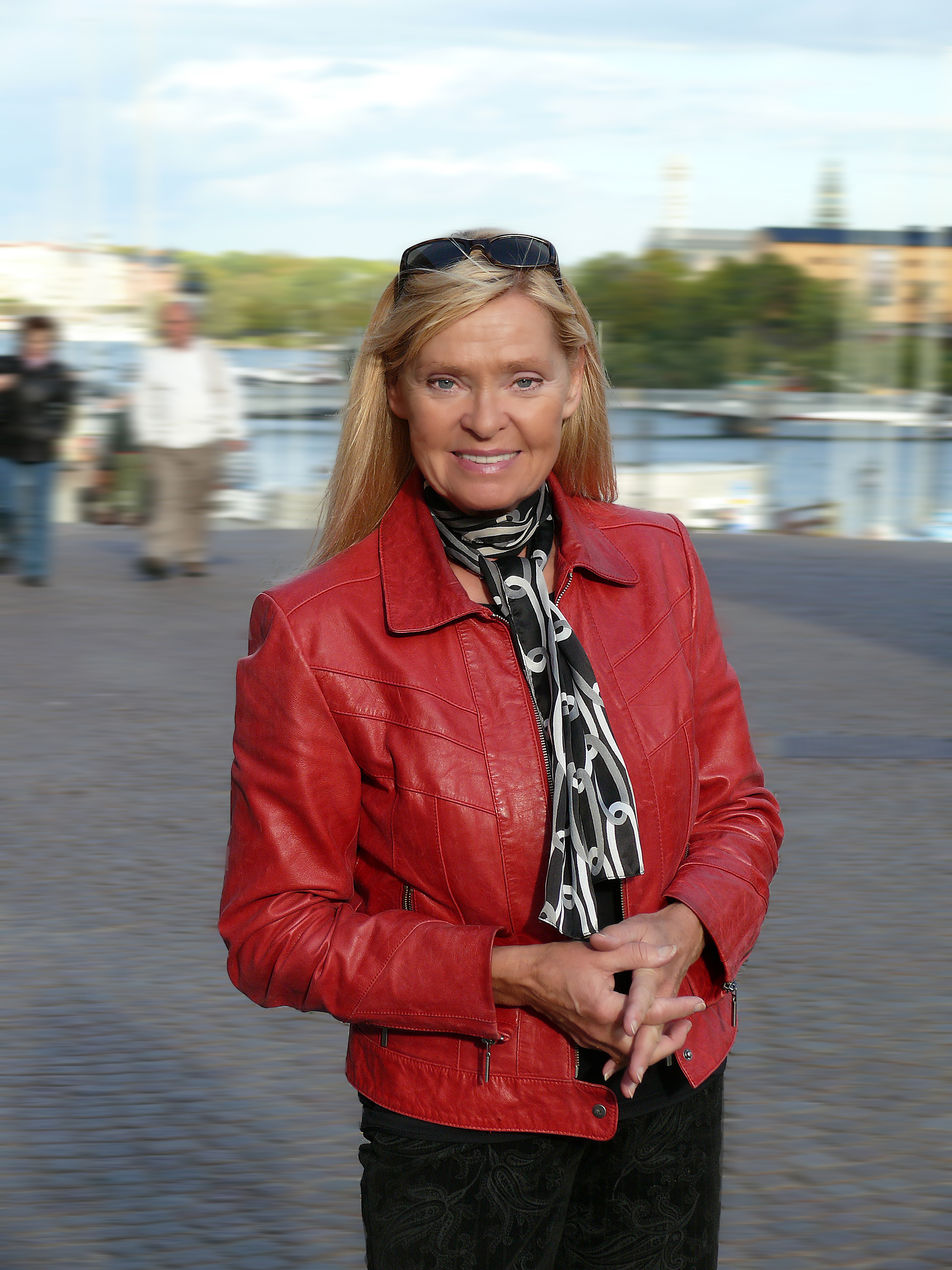 The Swedish singer Nina Lizell in Stockholm.